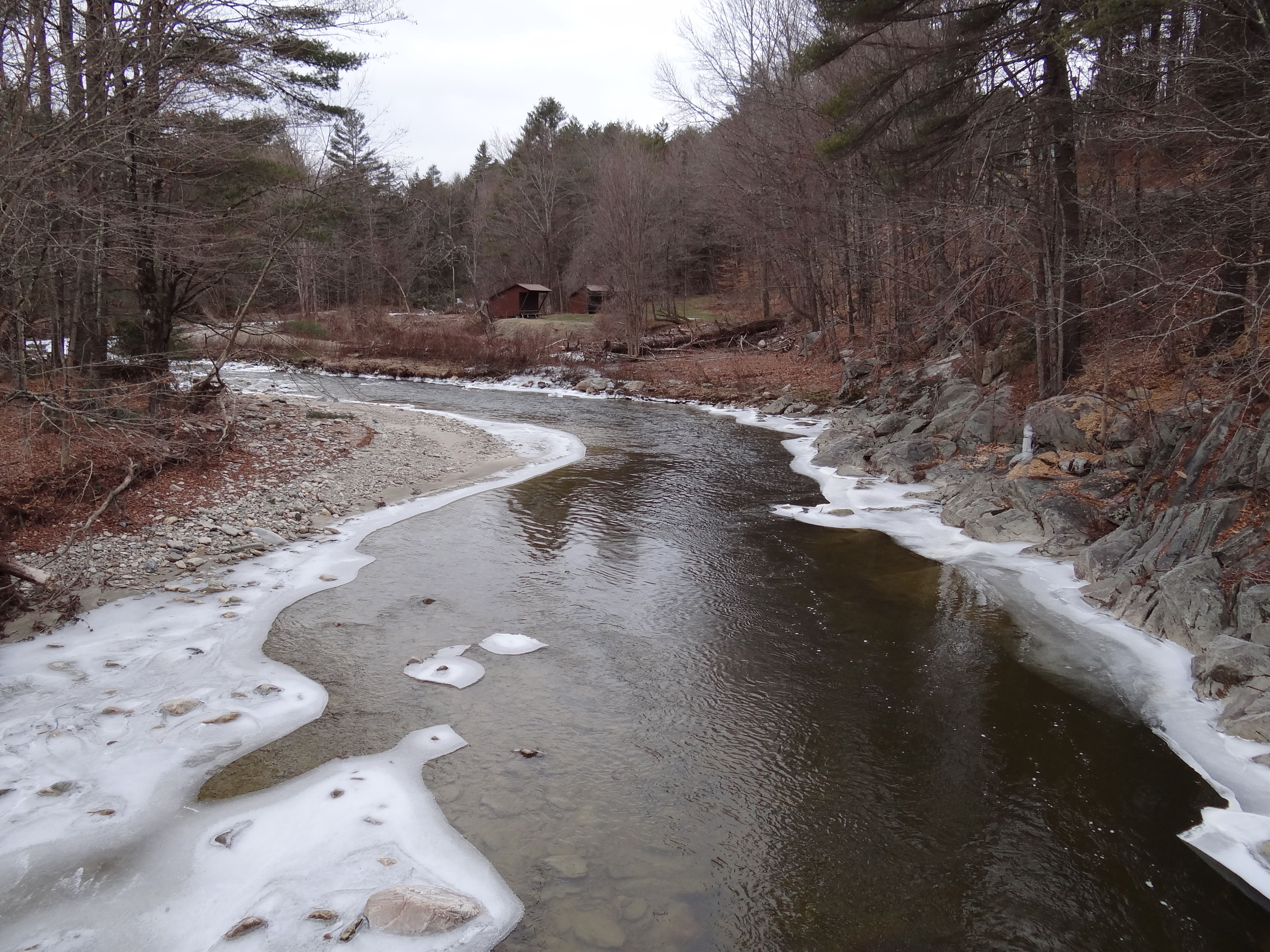 Winhall River, West River Trail. Looking West, January 2012